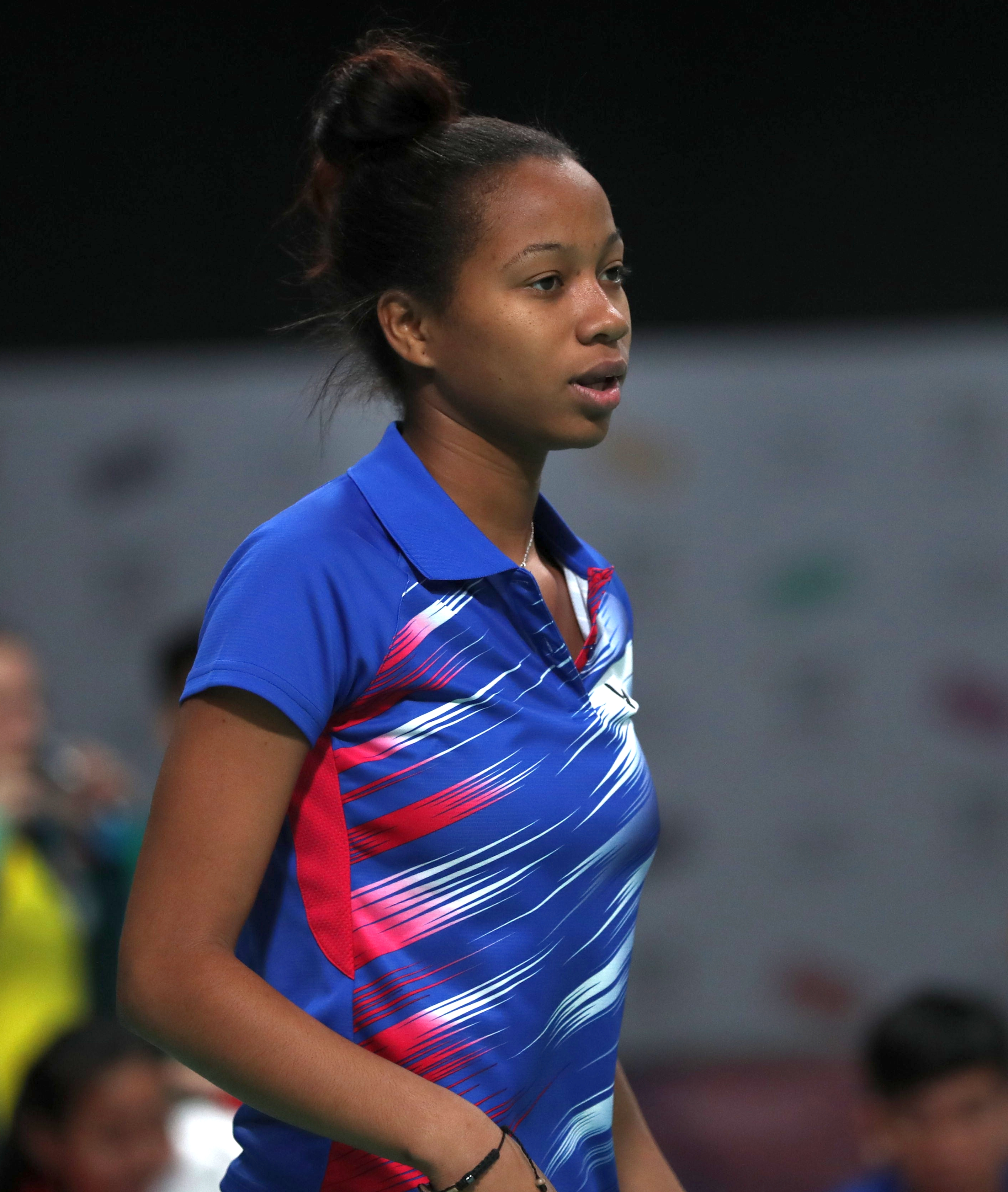 Bronze medal match at the Badminton Mixed International Team competition